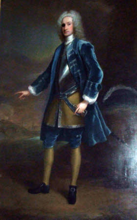 Portrait of Field-Marshall Sir Robert Rich, 4th Bt (1685-1768)